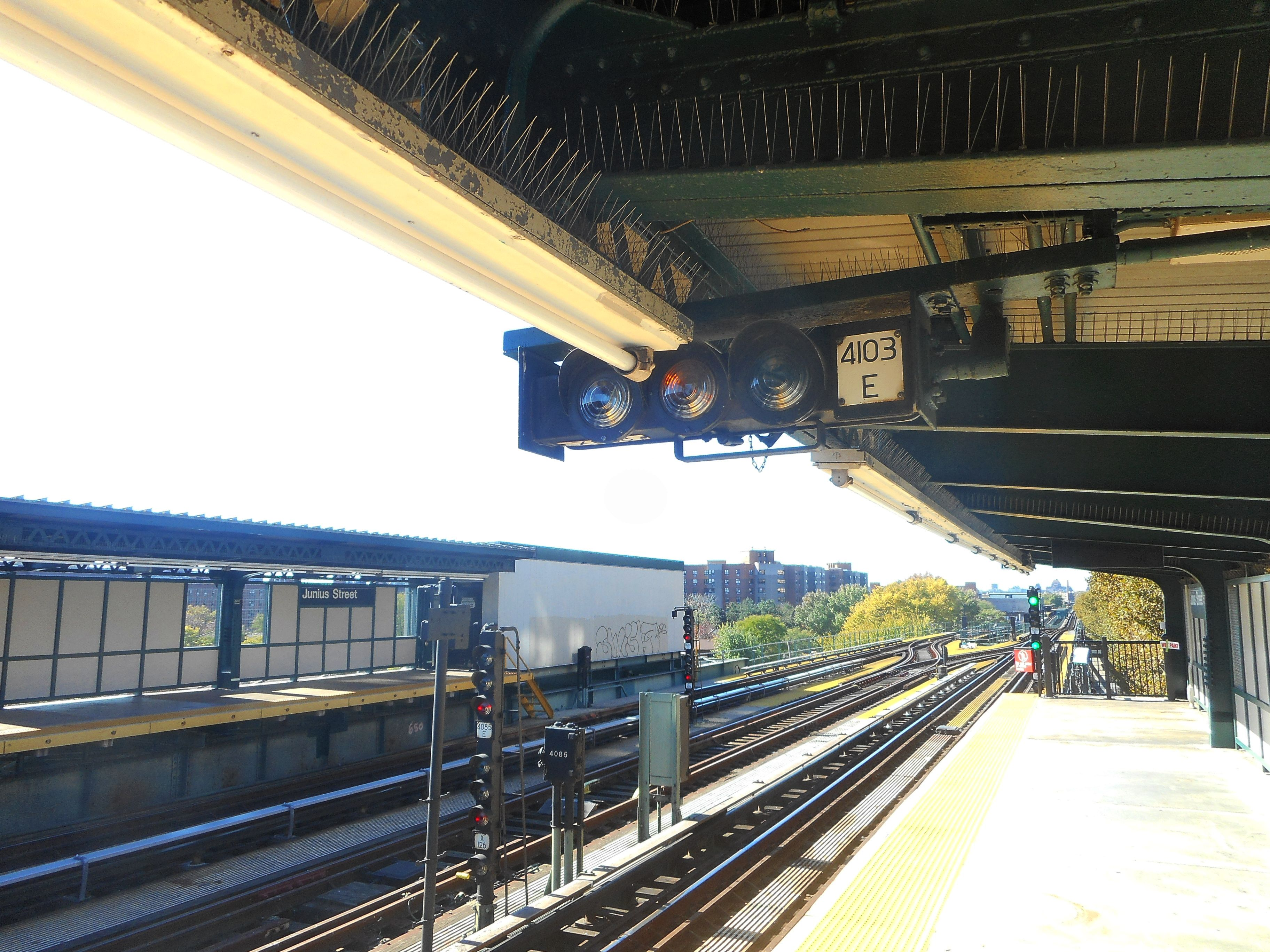 Additional images of the Junius Street Elevated Railway station on the IRT New Lots Line in the Brownsville section of Brooklyn, New York City. Further details, and possibly a rename to come later.